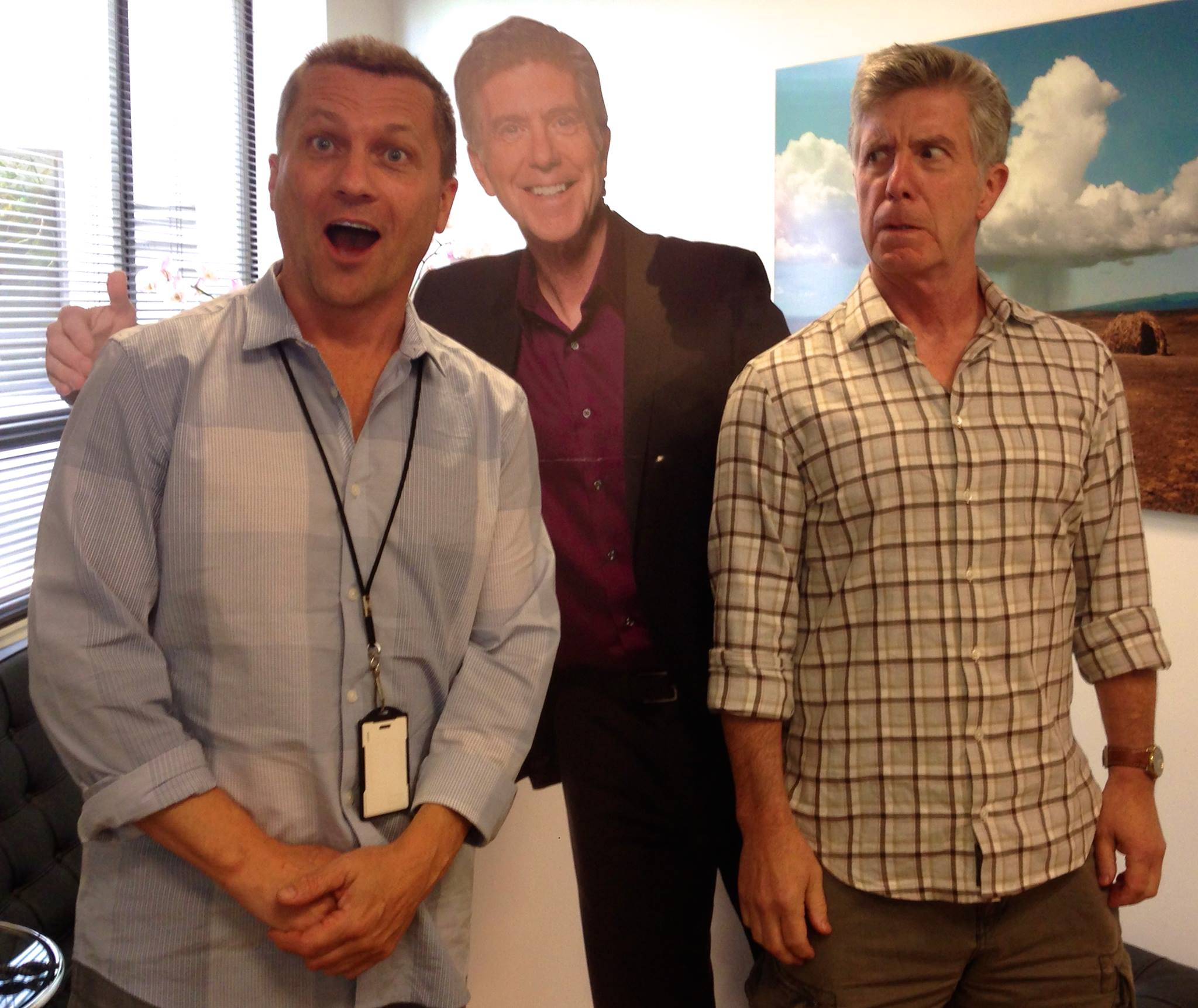 Todd Thicke and Tom Bergeron at AFV headquarters; photo taken from his facebook page managed by his assistant (me)